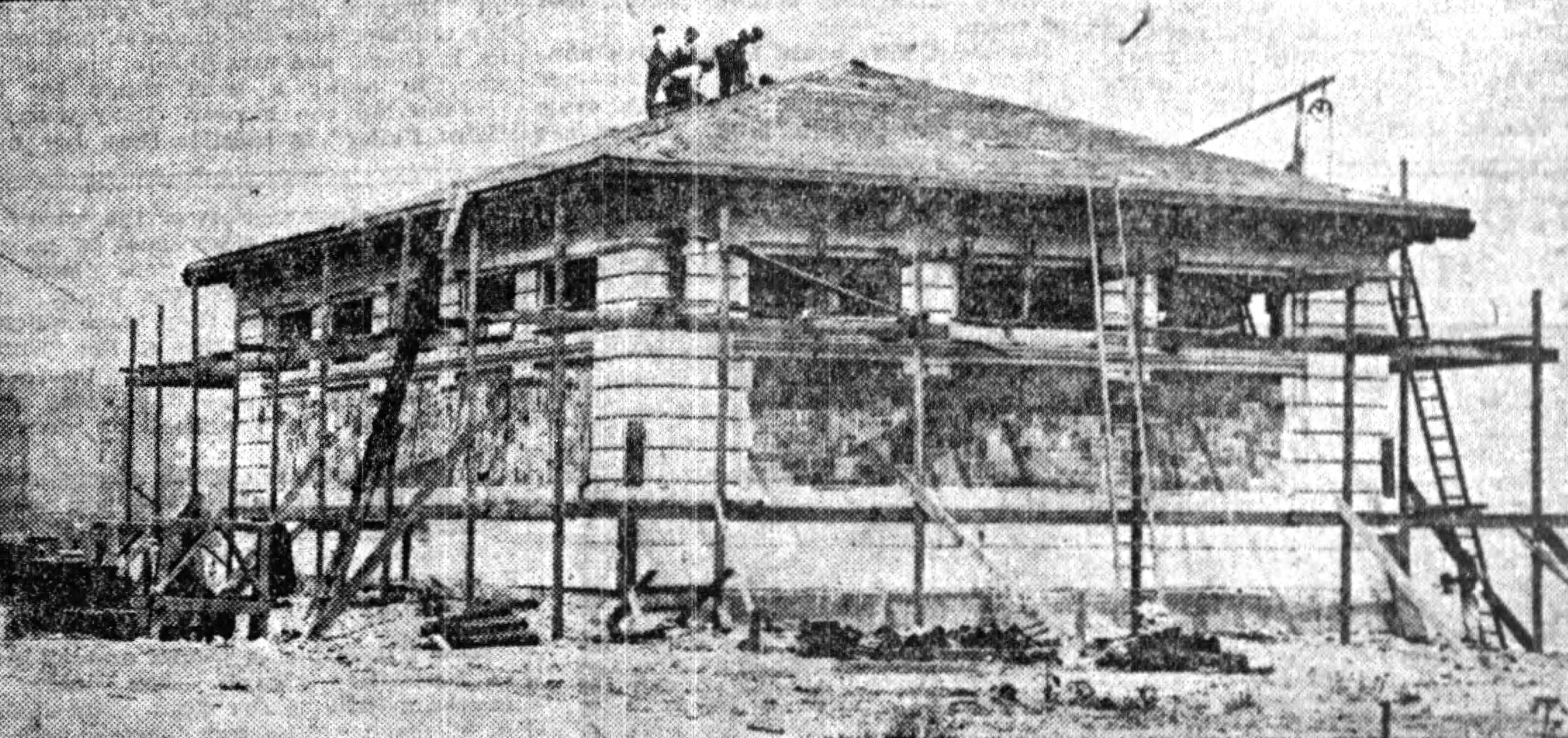 Construction of a gatehouse at Charlesgate East and Back Street in 1909. This gatehouse connected the existing Stony Brook conduit with a new conduit along the Esplanade.